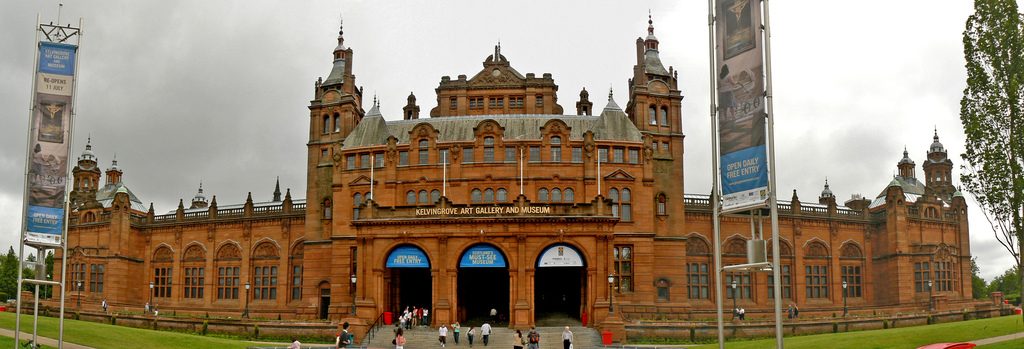 Glasgow, Kelvingrove Art Gallery and Museum.